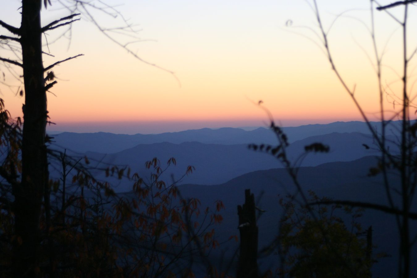 Sunset from Forney Creek Trail, 0.5 miles from the trail head at Clingman's Dome in Great Smoky Mountains National Park. Near the western trail head of the Mountains-to-Sea Trail to the to the Outer Banks of North Carolina.